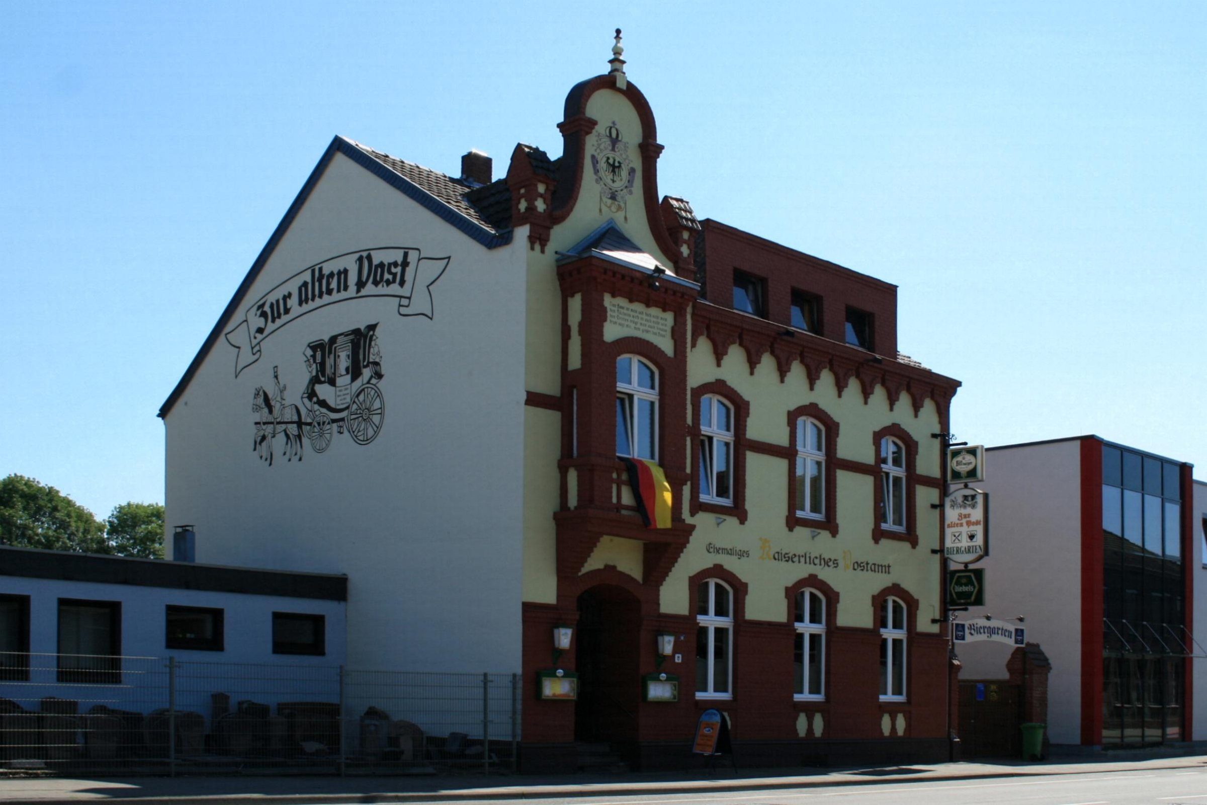 Cultural heritage monument No. H 027 in Mönchengladbach